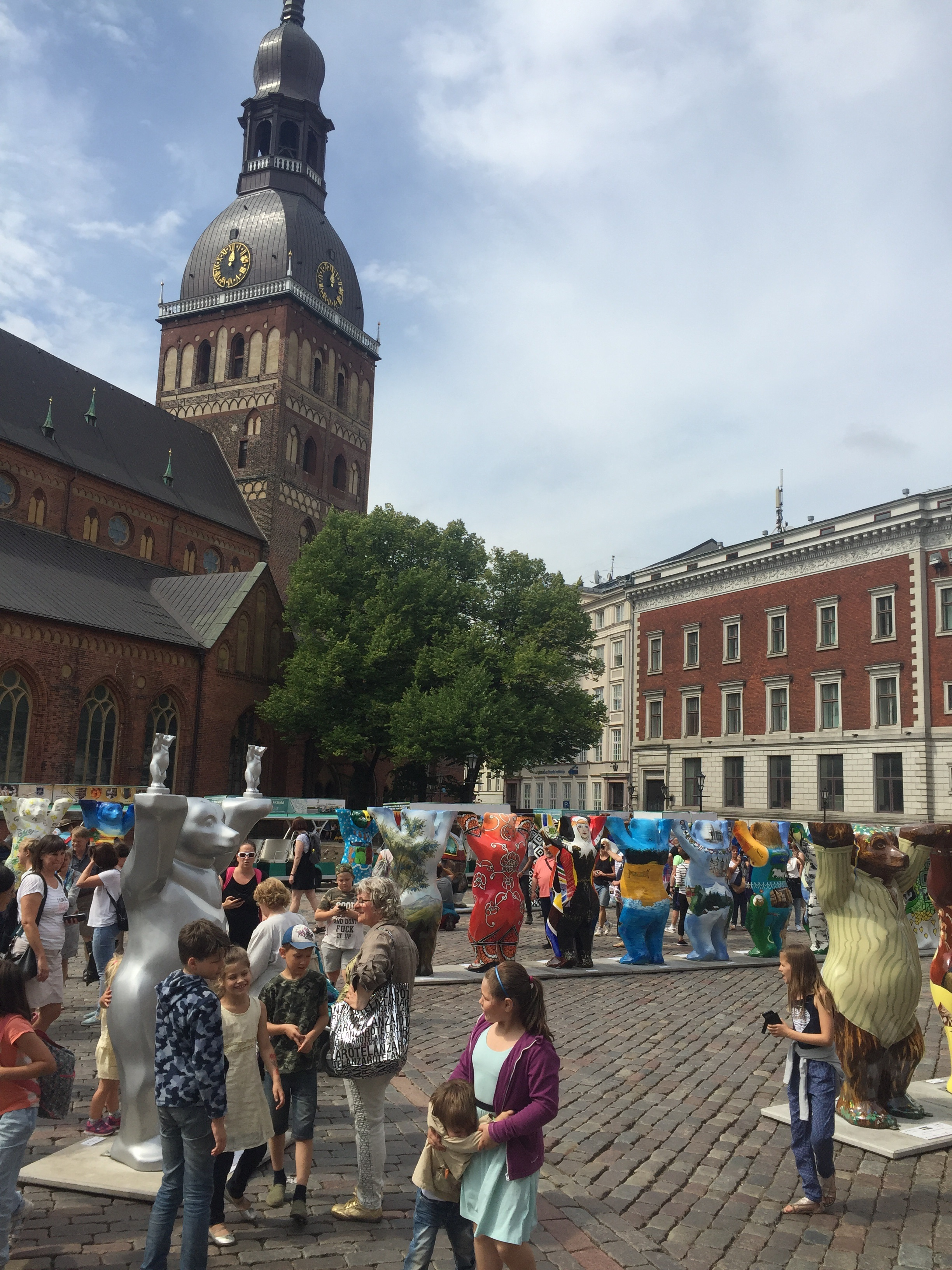 United Buddy Bears in Riga, 2018